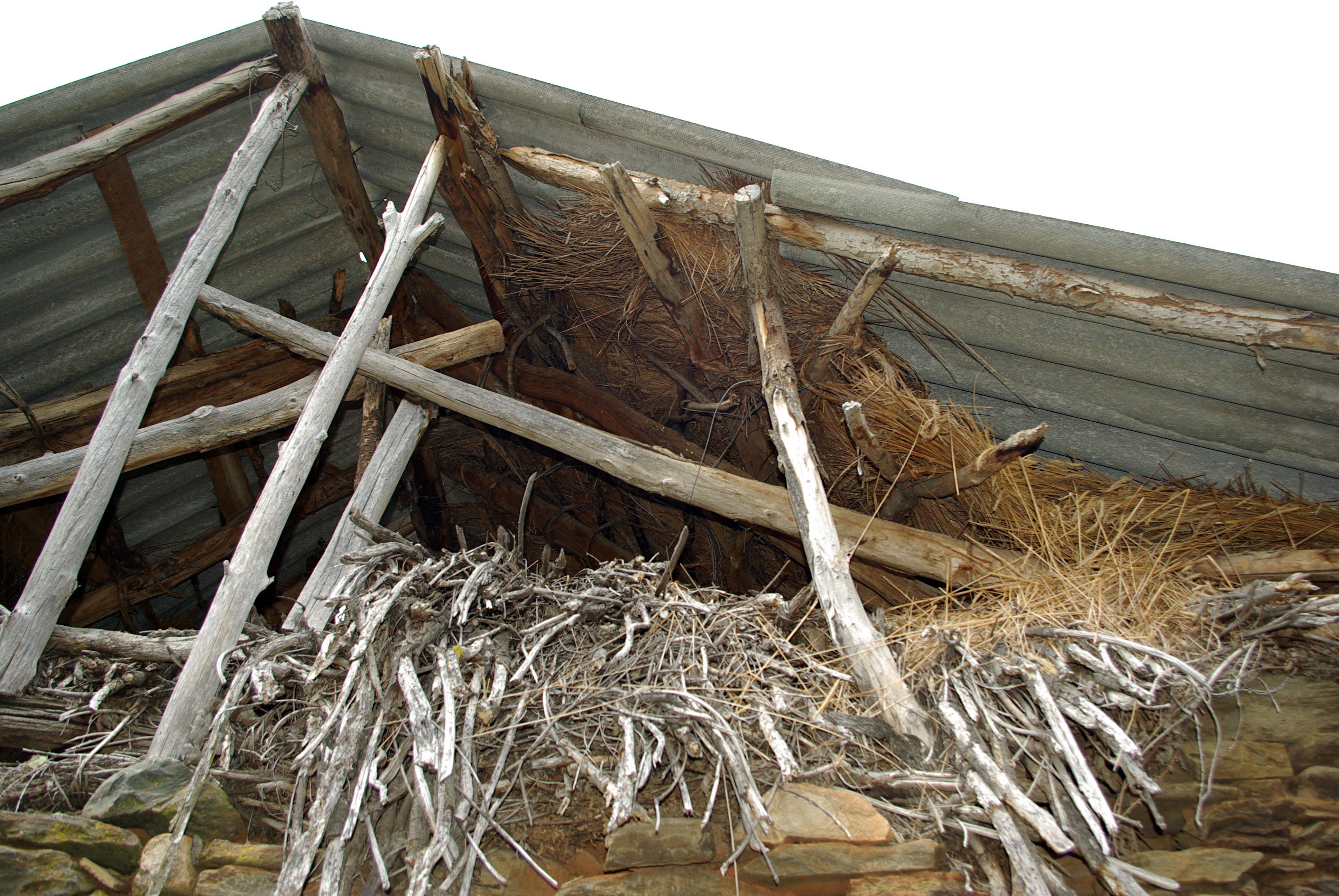 Old house of teito in La Omañuela (Riello, León, Spain)